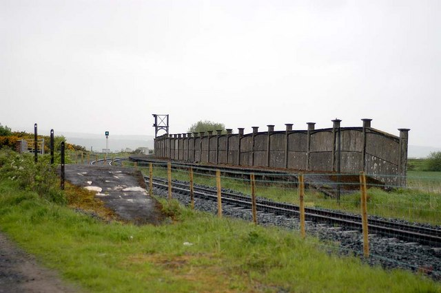 Limavady Junction Limavady Junction opened 01-03-1855, closed 17-10-1976. Railway access to Limavady town was at the Londonderry end of the Junction, near the signal. The station building (down platform) was to the left of the photo. The Up platform, was added later and constructed of precast concrete panels. A covered footbridge allowed access to the platform.